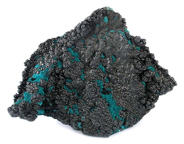 Heterogenite, Chrysocolla Locality: L'Etoile du Congo Mine (Star of the Congo Mine; Kalukuluku Mine), Lubumbashi (Elizabethville), Southern area, Katanga Copper Crescent, Katanga (Shaba), Democratic Republic of Congo (Zaïre) (Locality at ) Size: 13.3 x 10.0 x 3.3 cm. A really good specimen from this relatively recent find of warty-looking (in an attractive way!) black heterogenite, bubbled up richly upon a crust of bright blue chrysocolla. Ex. Charlie Key Collection.